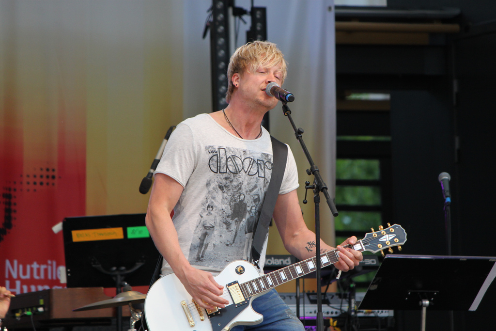 Sunrise Avenue's singer Samu Haber on May 2011 in Finland.